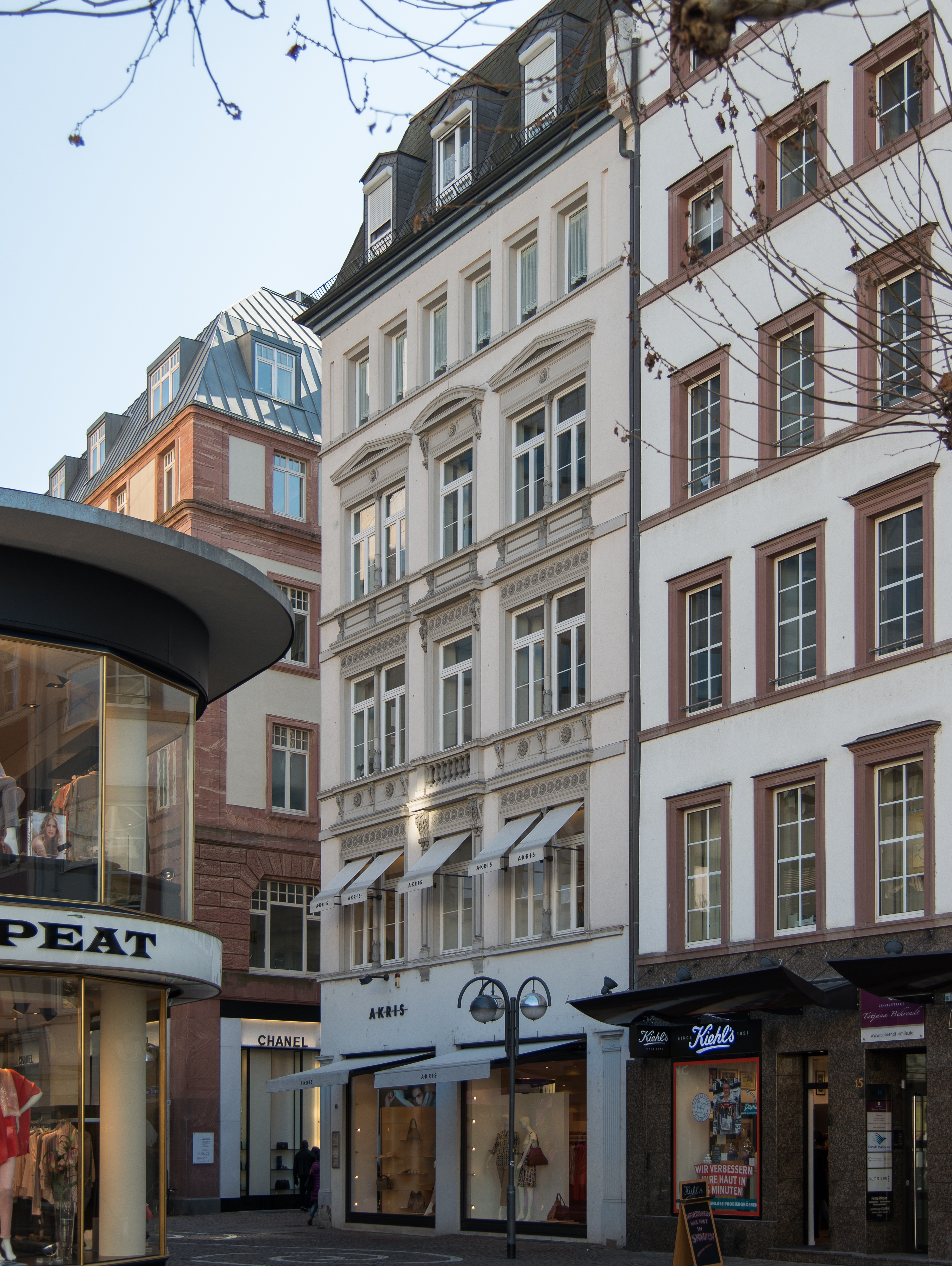 Frankfurt am Main, Große Bockenheimer Straße (Freßgass) 13. Cultural monument of the city.